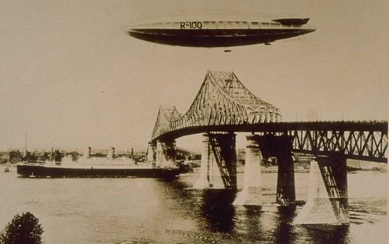 The dirigible R-100 passing over the Jacques Cartier Bridge in Montreal, while a ship is passing under.